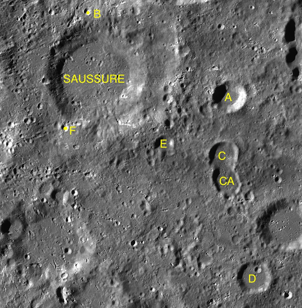 Part of the chart LAC-112 used for the presentation